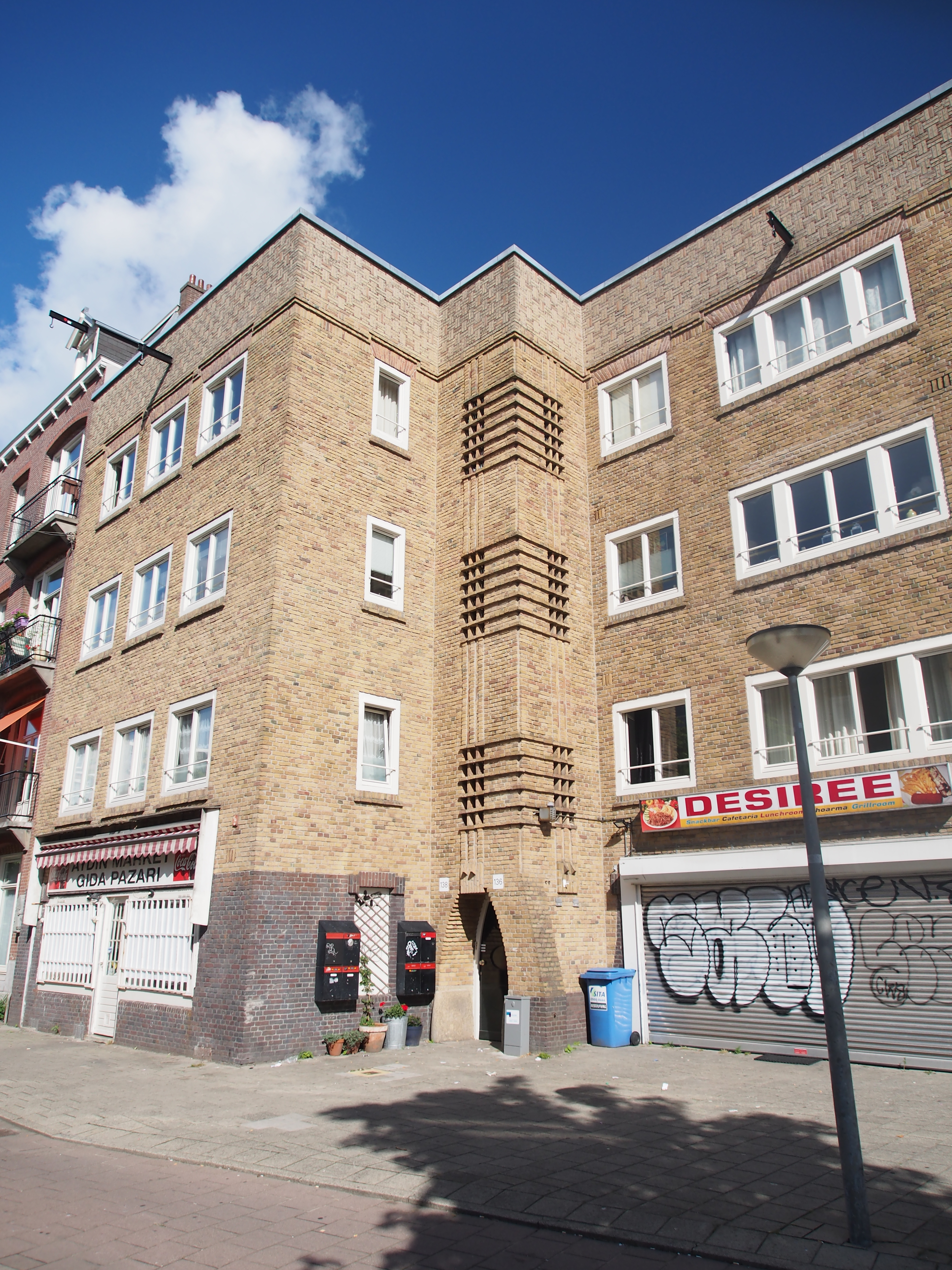 Photographed at Amsterdam, The Netherlands.